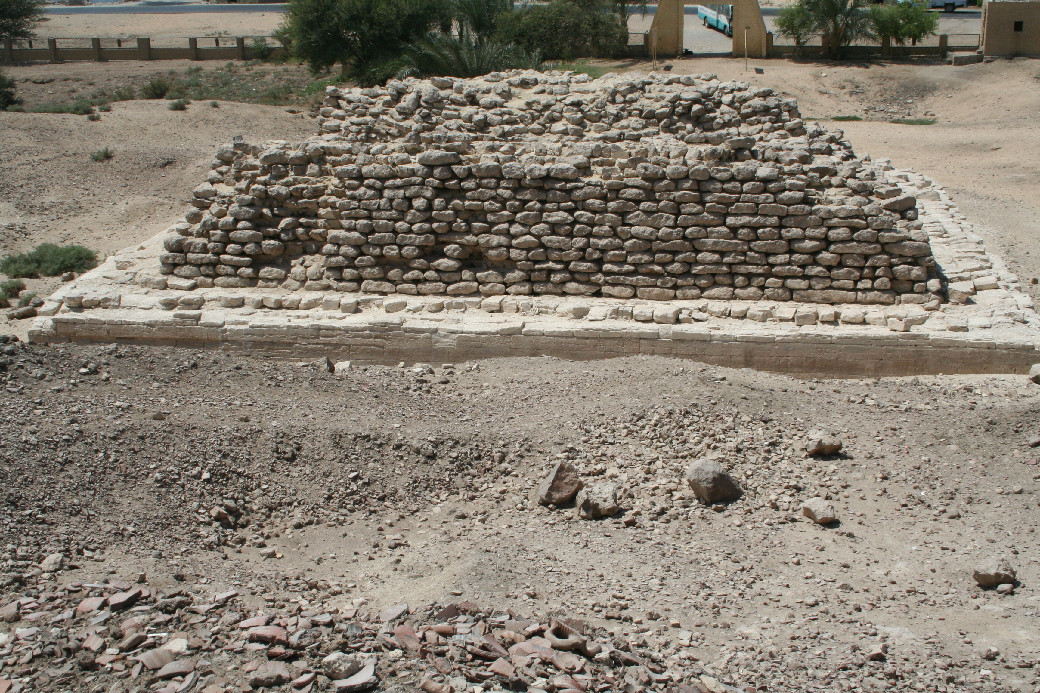 Pyramid of Saujet el-Meitin